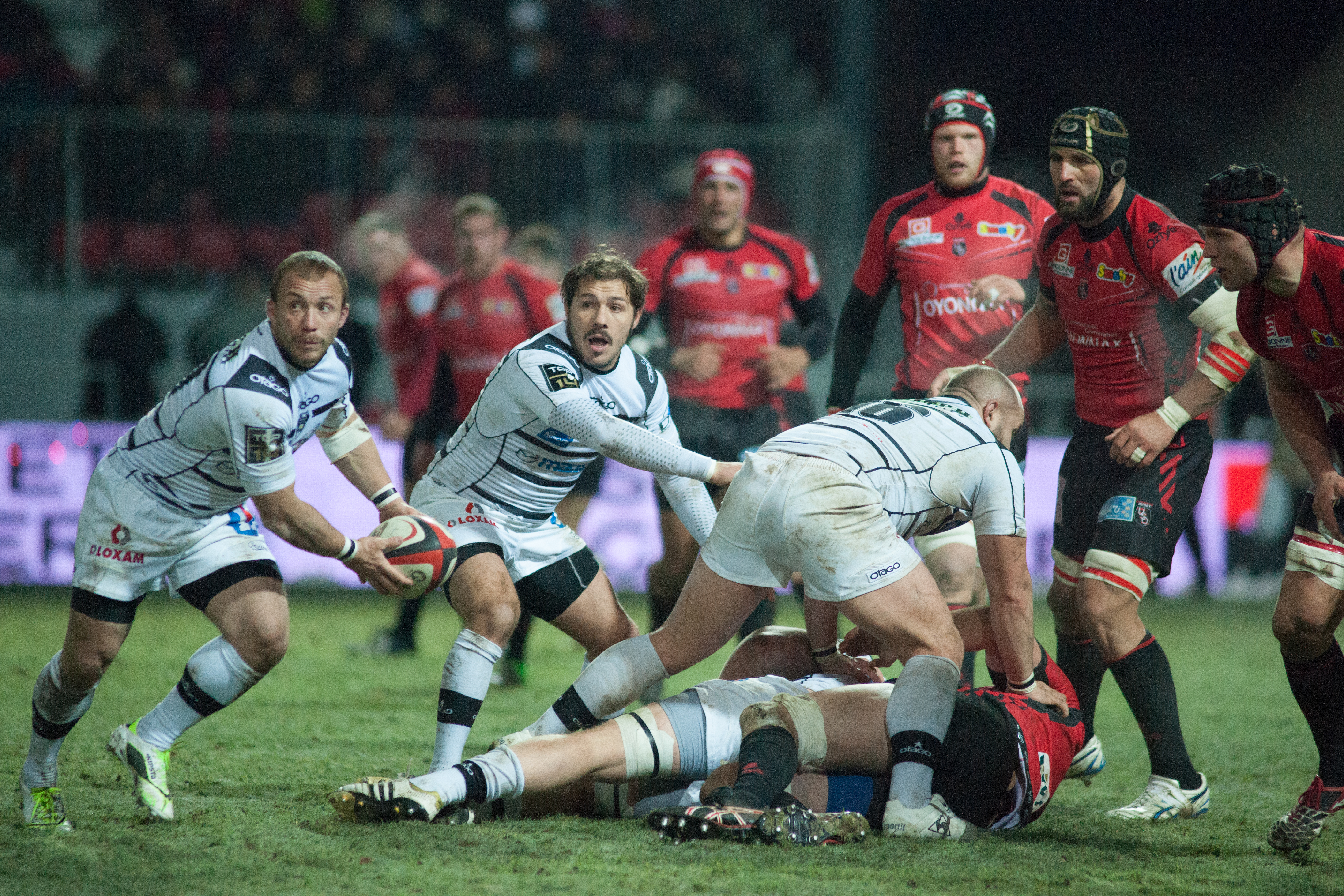 The making of this document was supported by Wikimedia CH. (Submit your project!) For all the files concerned, please see the category Supported by Wikimedia CH. US Oyonnax vs. CA Brive, 30th November 2013